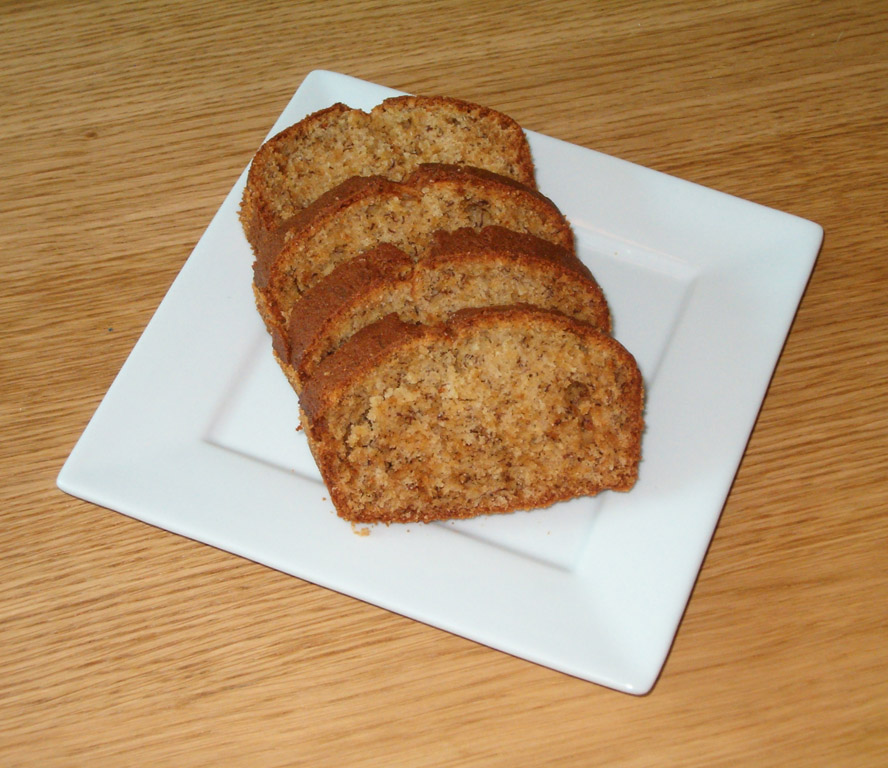 Some pieces of Banana Bread